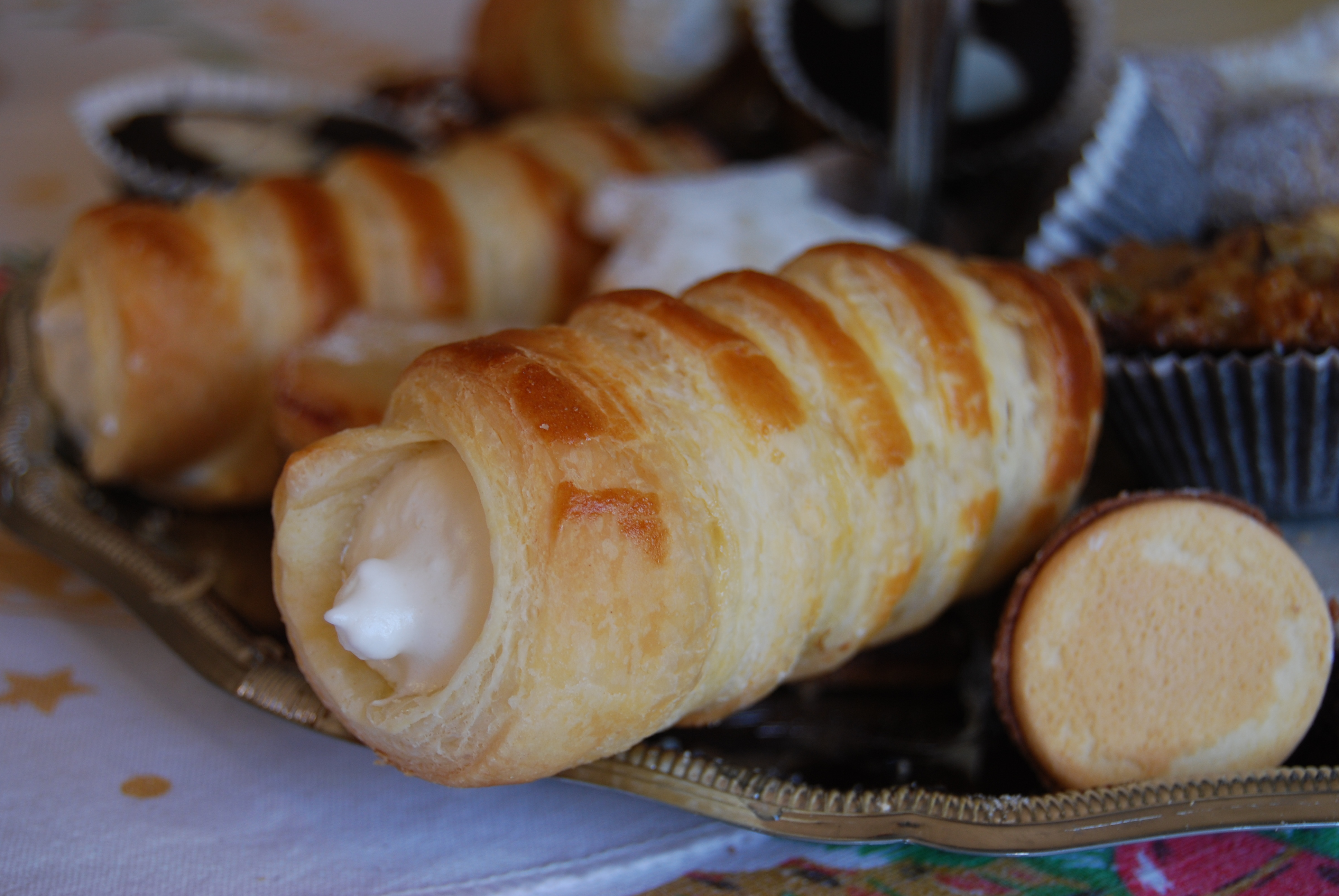 Kremrole, czech sweet cake